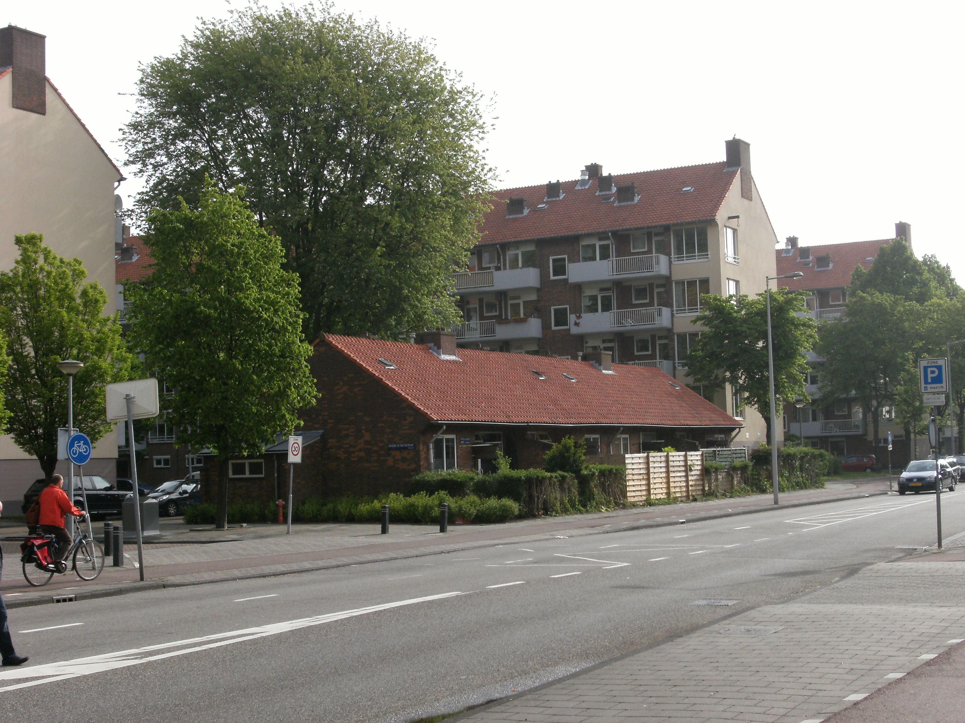 Central street in Slotervaart, Amsterdam